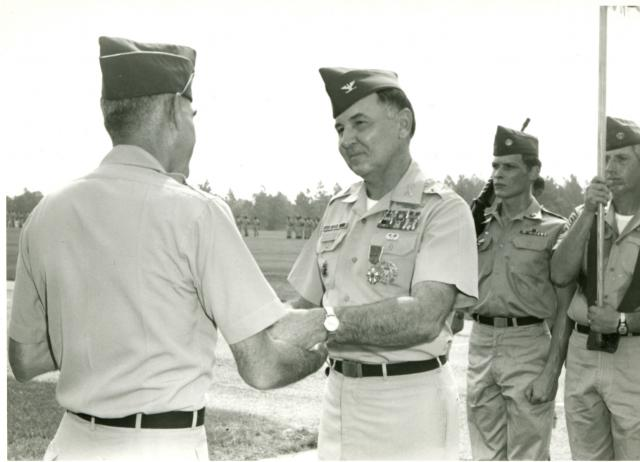 United States Army officer Charles Murray accepts congratulations from Major General Robert Hixon, Fort Jackson commanding general, during his retirement ceremony on July 30, 1973